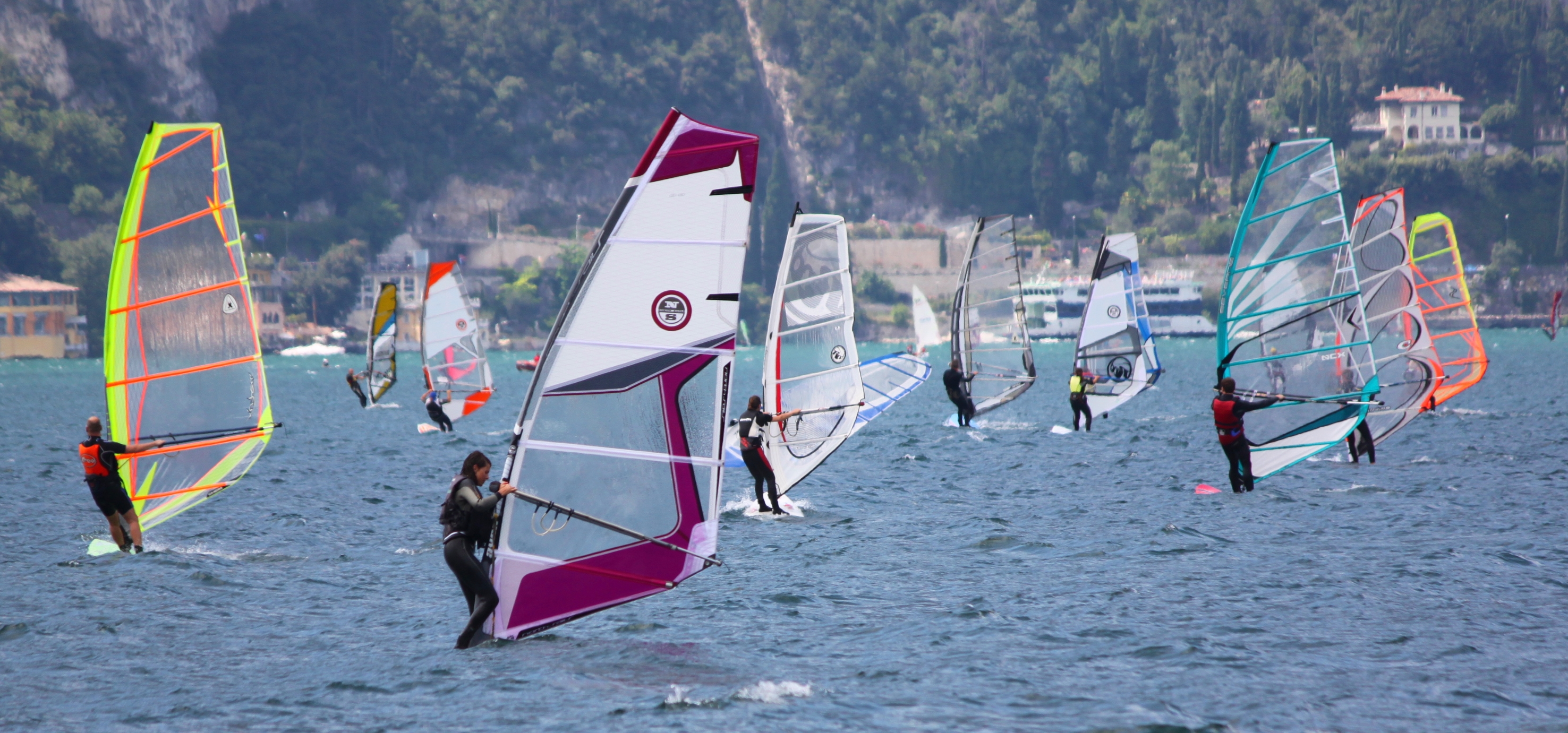 Wind surfer on Lake Garda